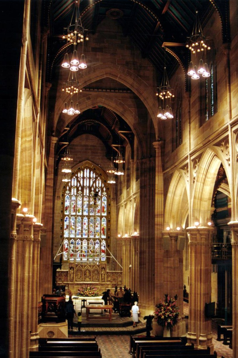 Sydney, St. Andrew's Anglican Cathedral, the interior, during restoration, the east window scaffolded.